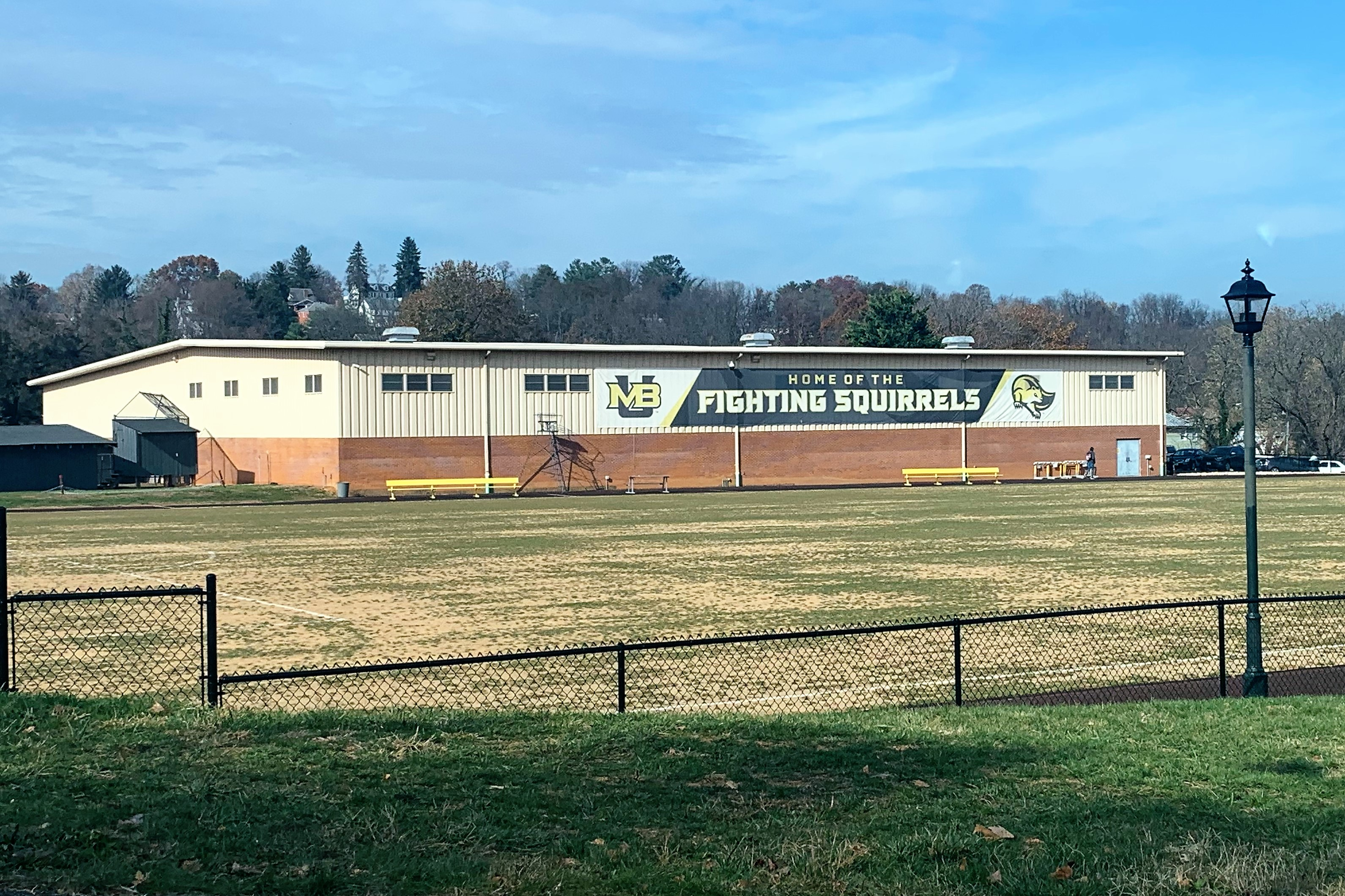 Athletics building and field at Mary Baldwin University in Staunton, Virginia